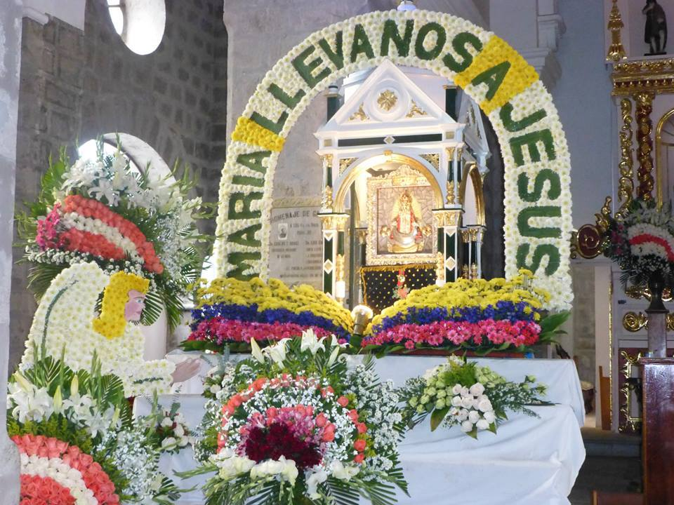 La Virgen del Quinche venerada en Quisapincha-Ambato-Ecuador